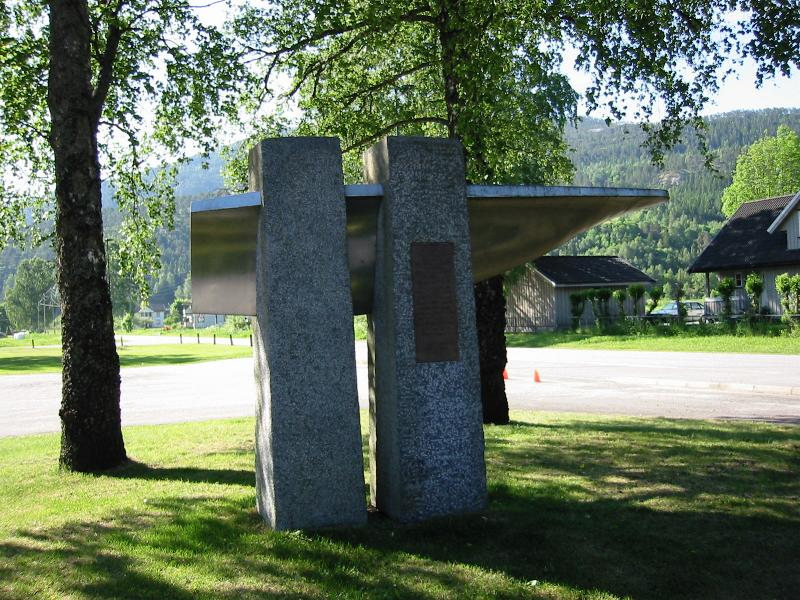 Memorial monument in the town of Seljord, Norway. In honor of the 11 american airmen who lost their lives in a plane crash at Skorve mountain Sept. 9th 1944. Artist is Ellen Grøstad Barstad from Flatdal. The Norwegian inscription reads: "Til minne om det amerikanske mannskapet som omkom i flystyrt på Skorve den 9. september 1944." Followed by the names of the airmen and:"Bygdi reiste dette minne i 1994". Translated: "In memory of the American crew who died in a plane crash at Skorve on September 9, 1944.", "The town erected this memorial in 1994".